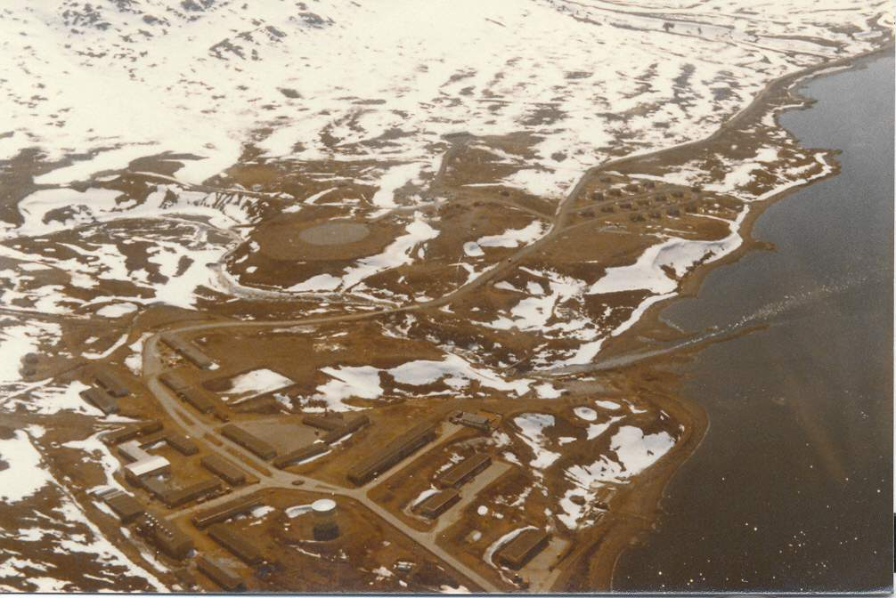 Grønnedal(Kangilinnguit) in South Greenland. HQ of Danish Naval Command Greenland. Originally build by US Army under code name Bluie West 7. Photo by Jan Kronsell